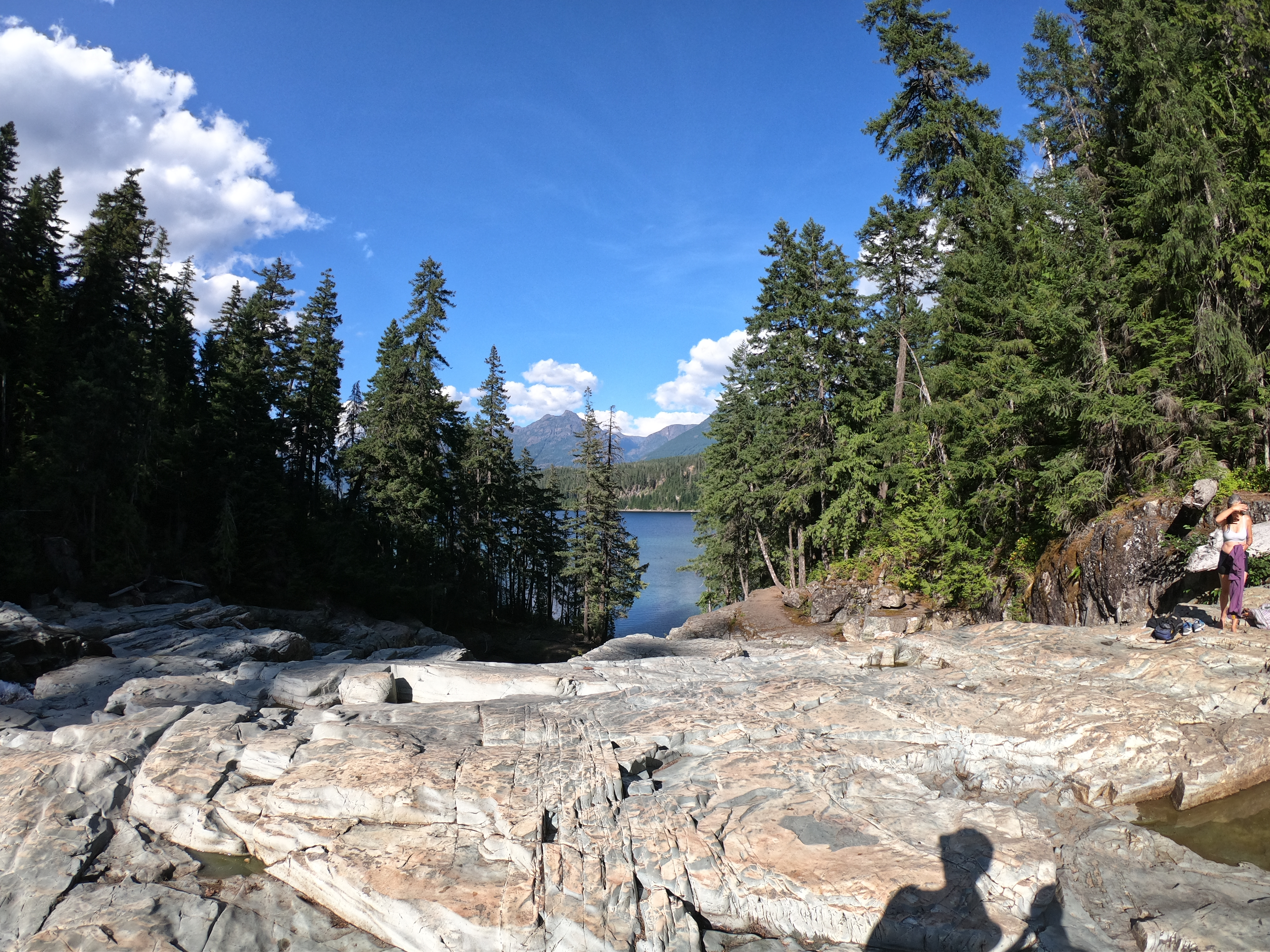 View of Buttle Lake from the upper part of Lower Myra Falls. The photo was taken on the lake-side of the swimming hole, looking out over the lower part of the falls and the slope down towards the lake.